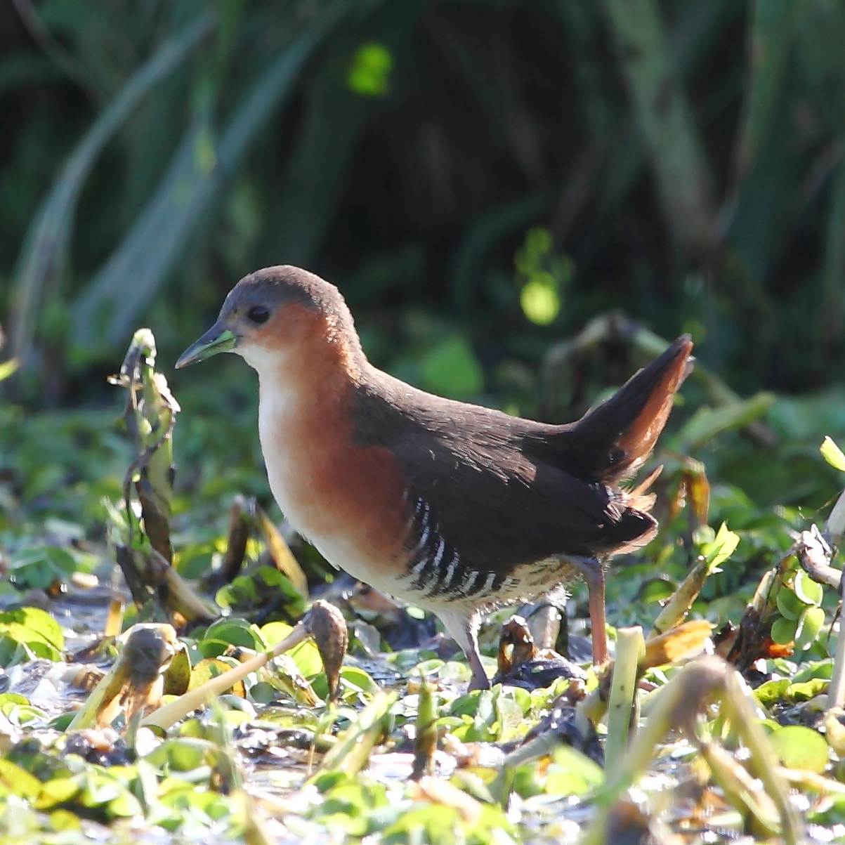 Rufous-sided Crake at Piracicaba - SP - Brazil